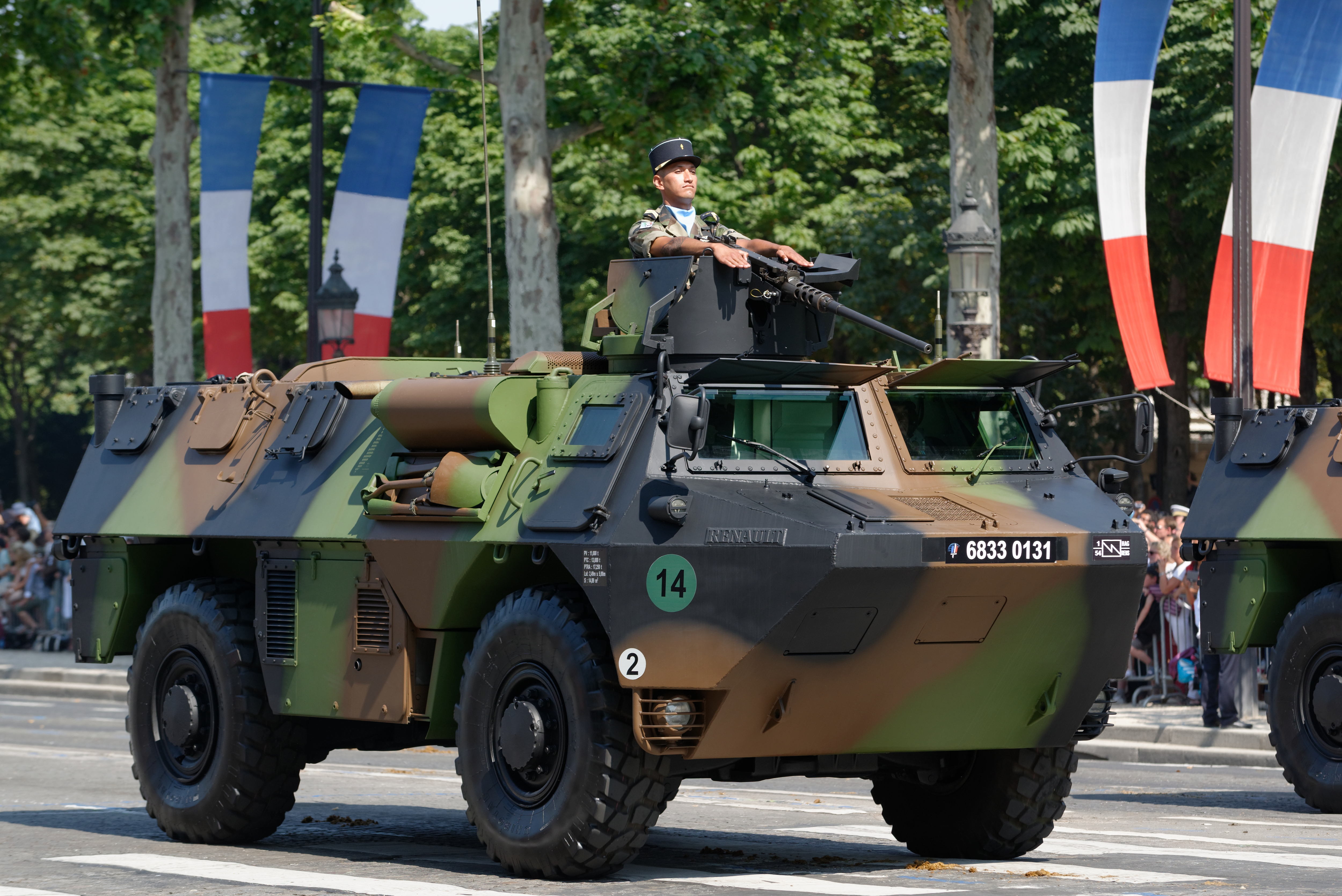 VAB (vanguard armoured vehicle) of the 54th Signal Regiment at the Bastille Day 2013 military parade on the Champs-Élysées in Paris.